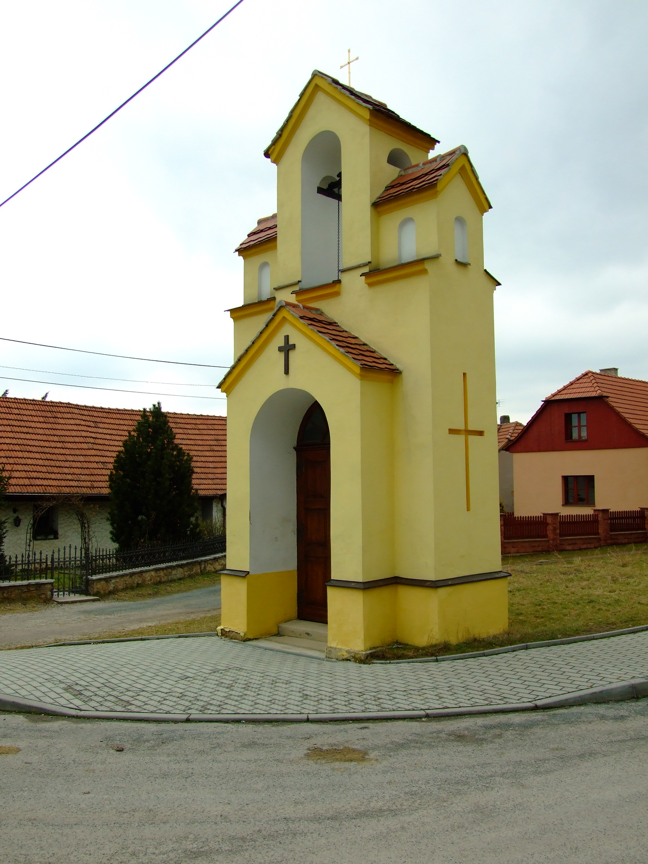 Town Chyňava (its part is this village - Libečov) and surrounding nature in Central Bohemian region, CZhelp